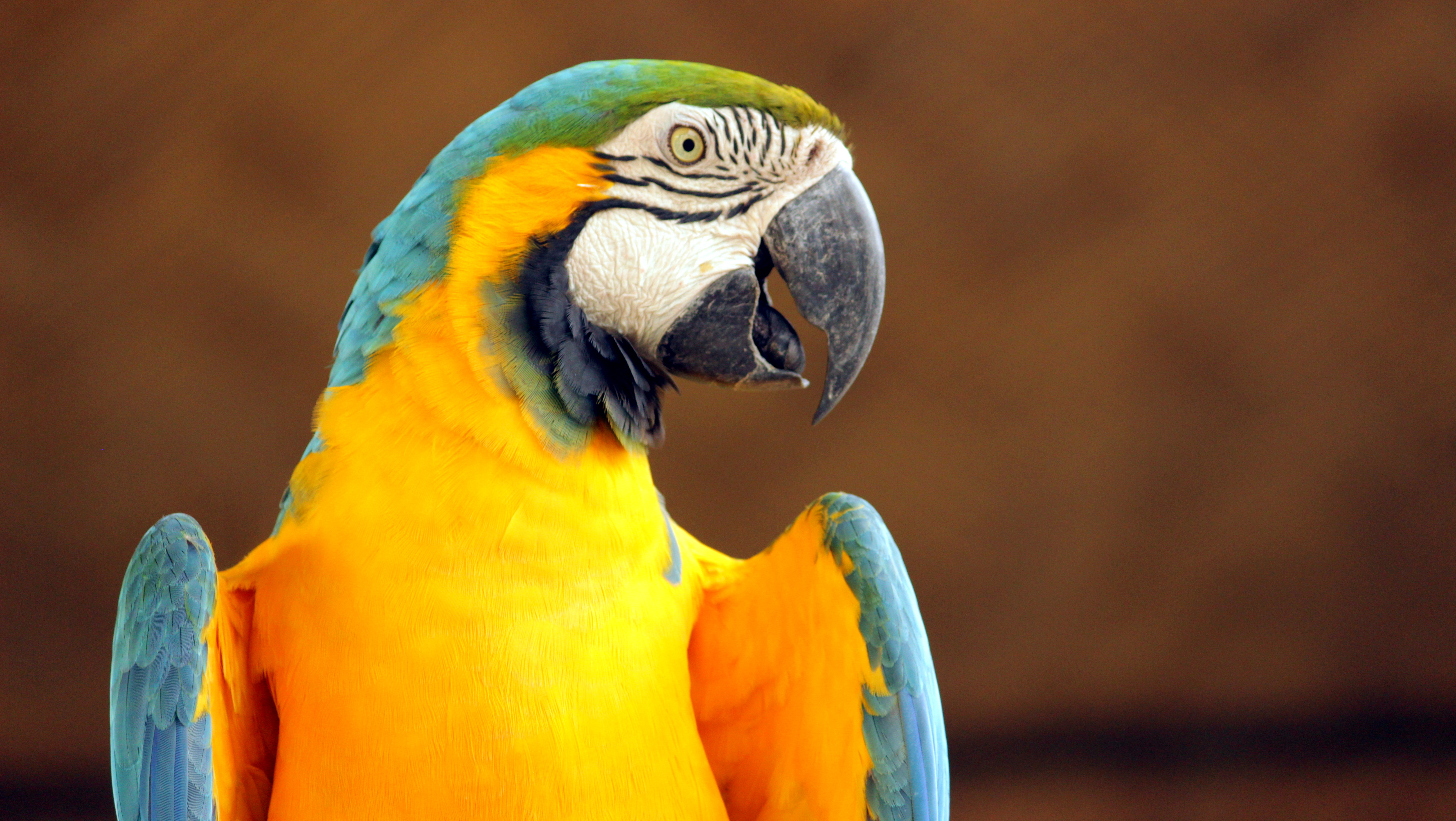 Blue and yellow Macaw at Bangabandhu Sheikh Mujib Safari Park